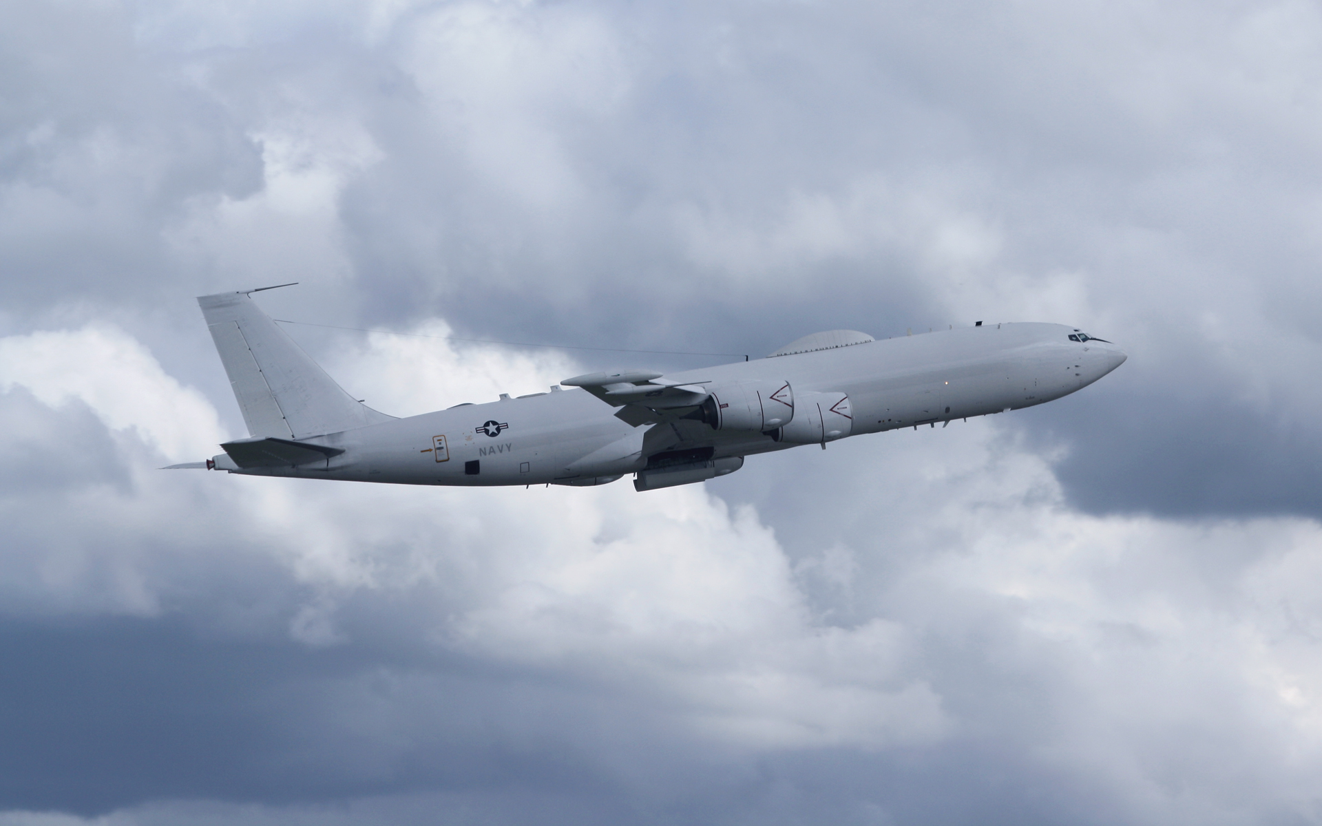 Navy E-6B TACAMO departing Tulsa Intl Airport during the Apr 24, 2010 QuikTrip Rocket Race & Airshow.